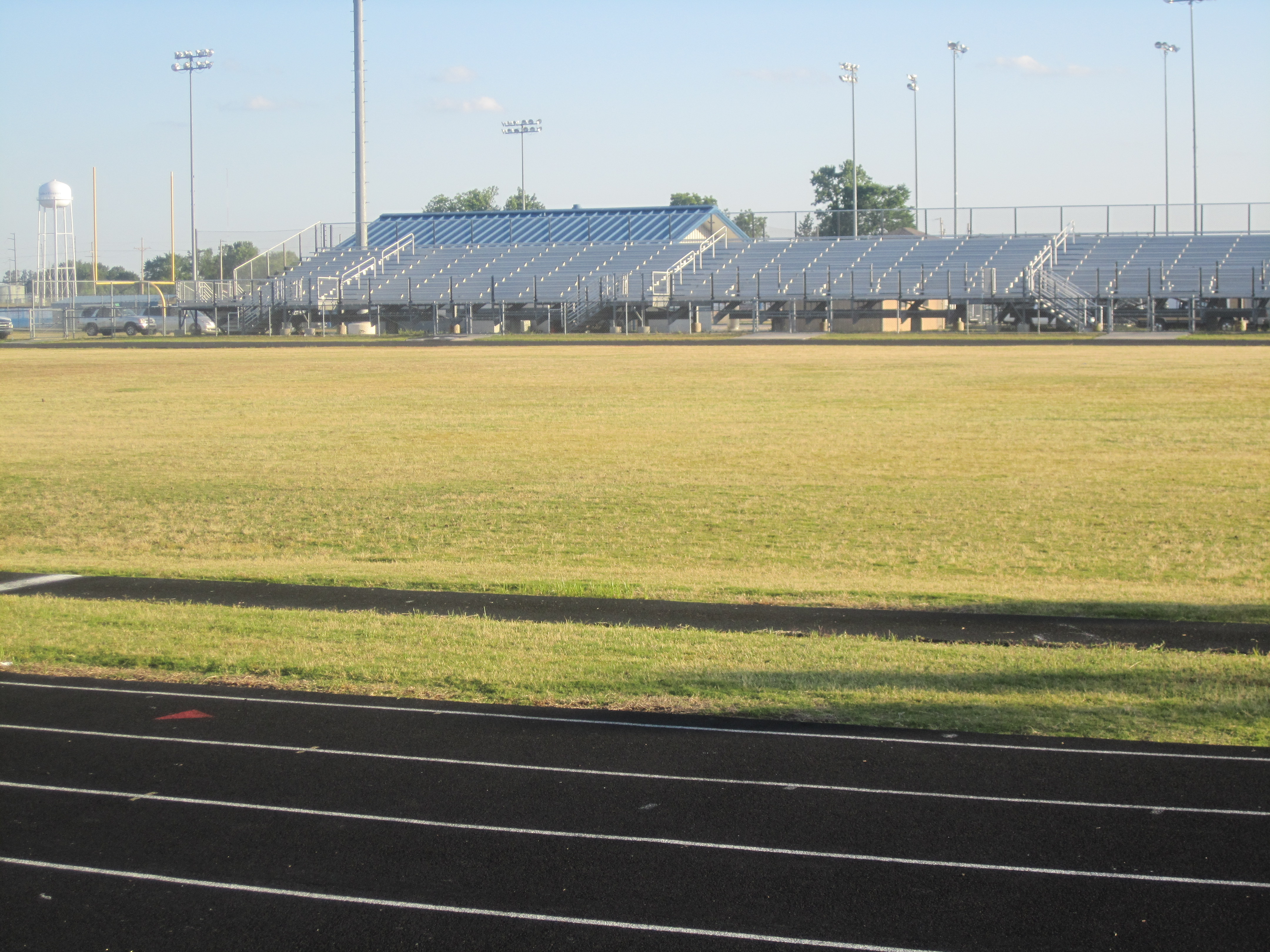 I took photo with Canon camera in Sterlington, LA: football field of the Panthers.